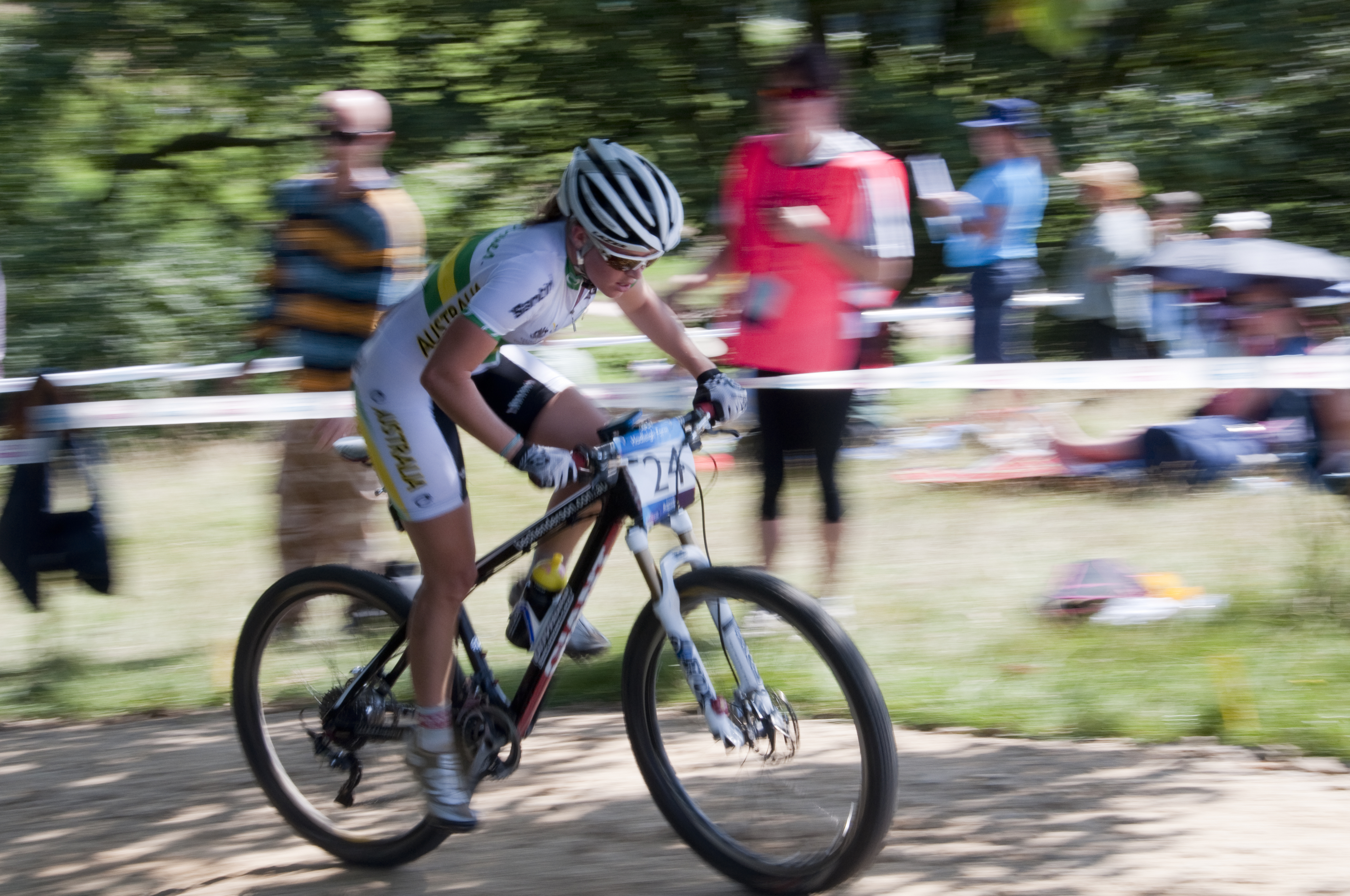 Henderson on the 2012 Olympic Course